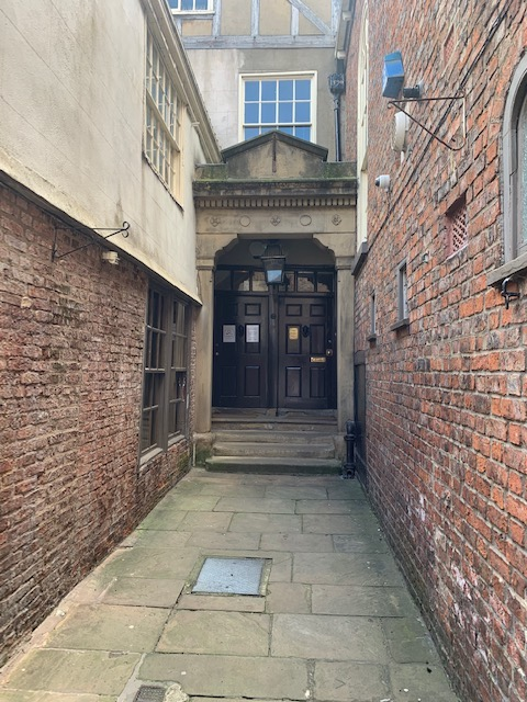 York Medical Society, pathway to front entrance, York, UK